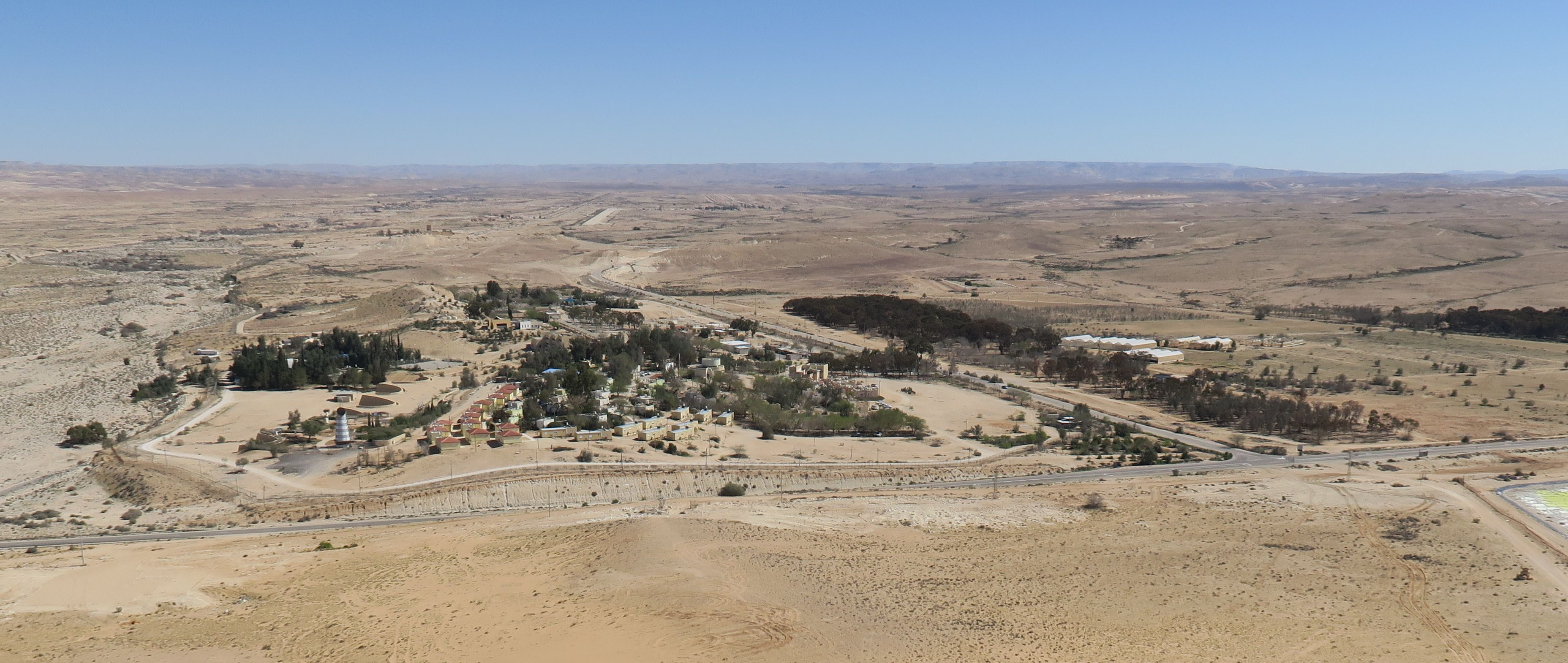 Nitzana educational youth village and community settlement in southern Israel.